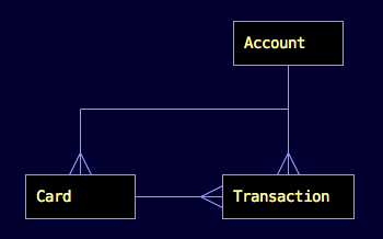 This ERIL diagram shows three entities: Account, Card and Transaction. There are three one-to-many relationships. An Account can have several Cards, composition (ownership). An Account can have several Transactions, composition (ownership). One Card can be linked to several Transactions, aggregation (no ownership).